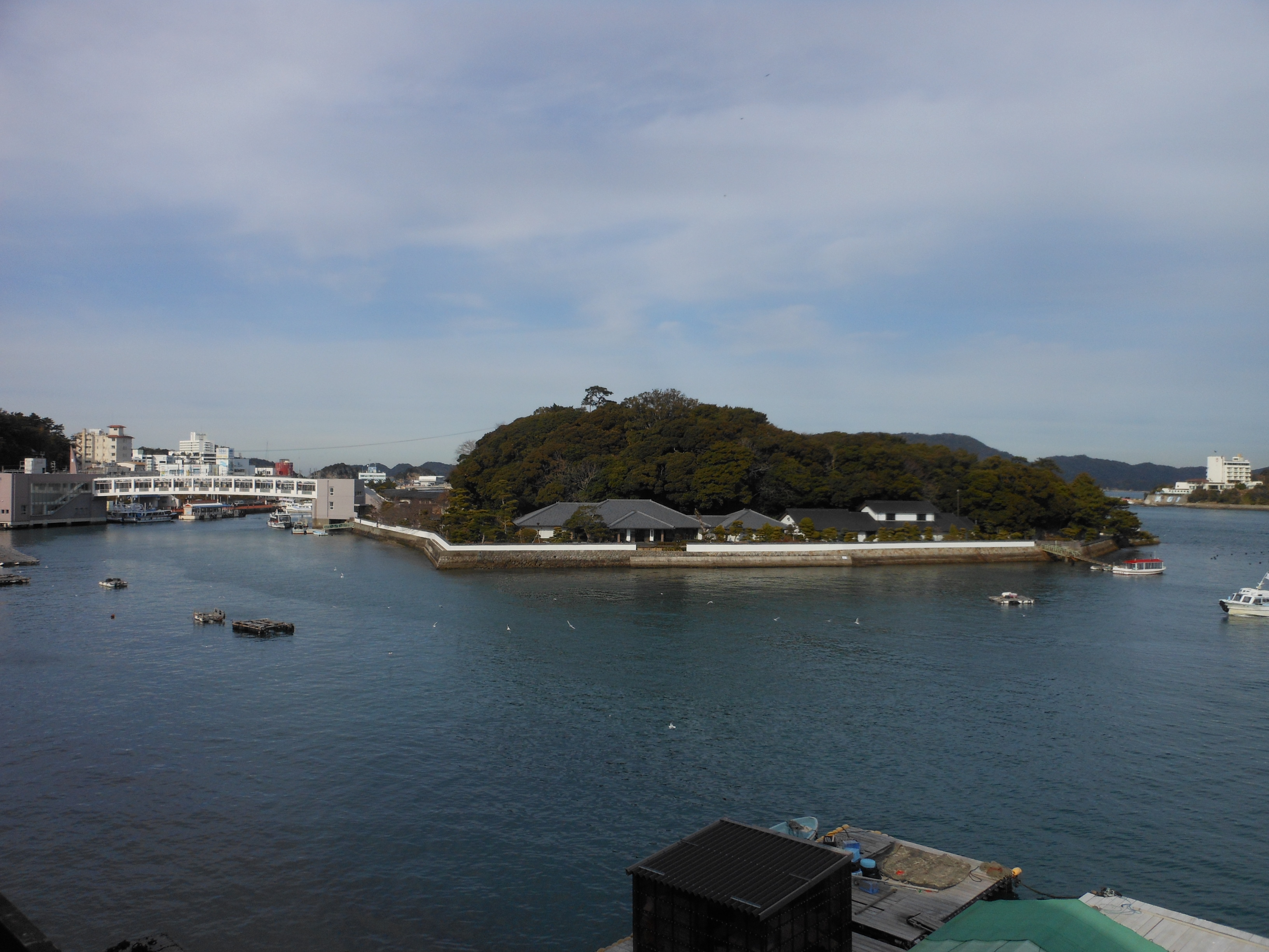 This is a photo of Mikimoto Pearl Island, which was taken from Toba Auqarium, Mie, Japan.